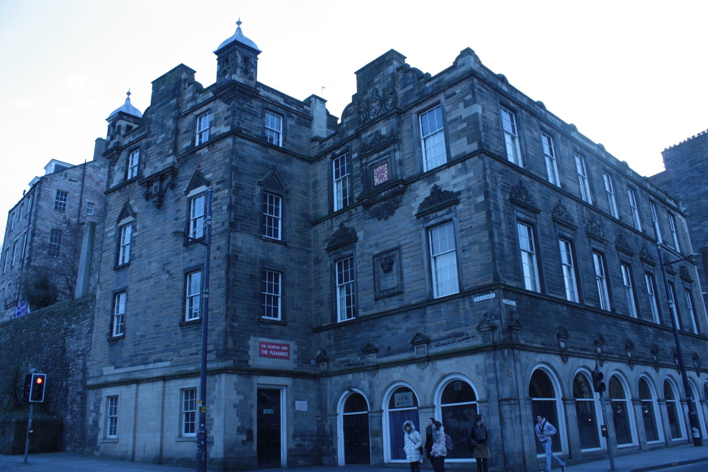 Heriots Trust School converted to Salvation Army use, Cowgate Edinburgh